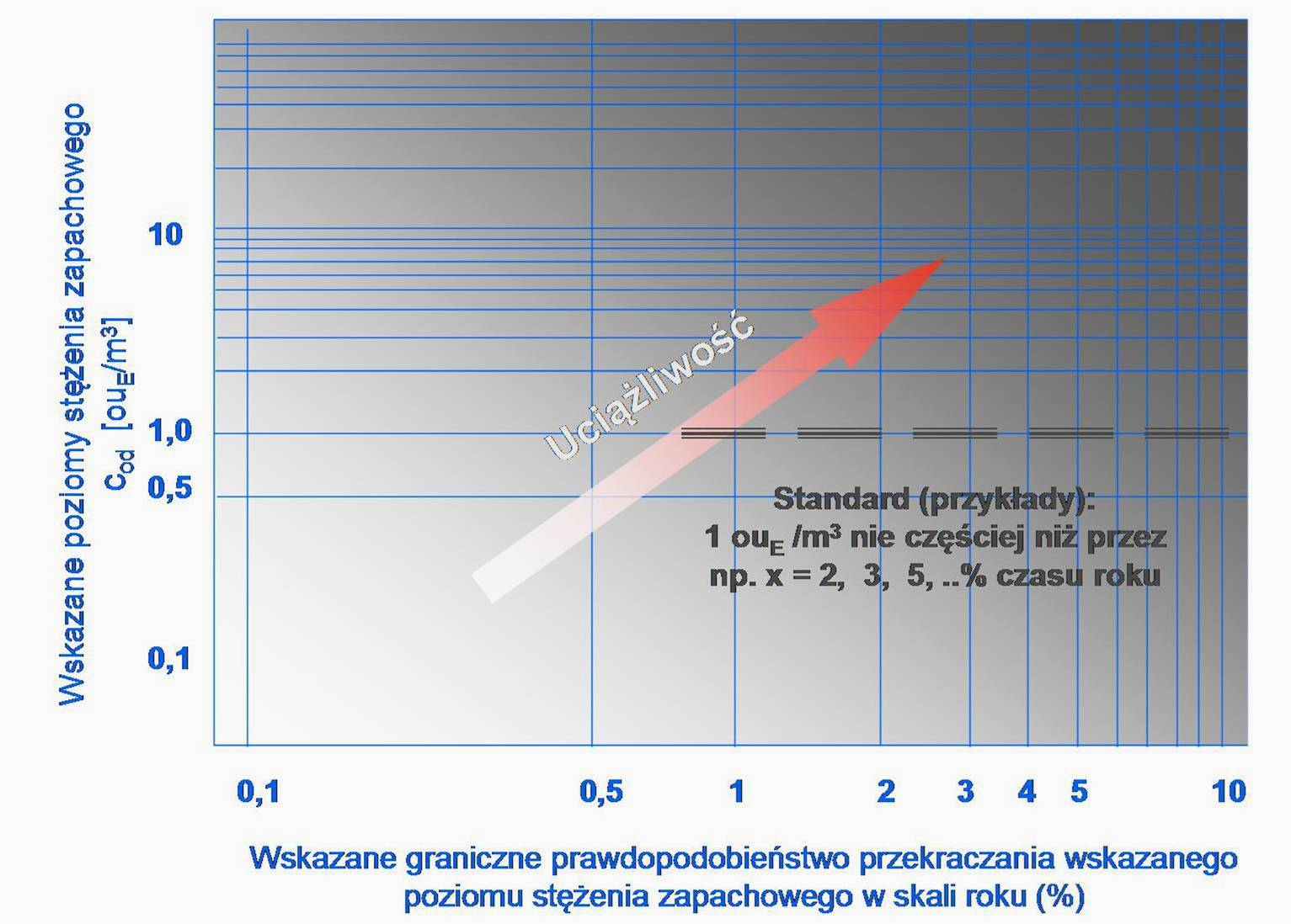 Odour Air Standards, fig. 3